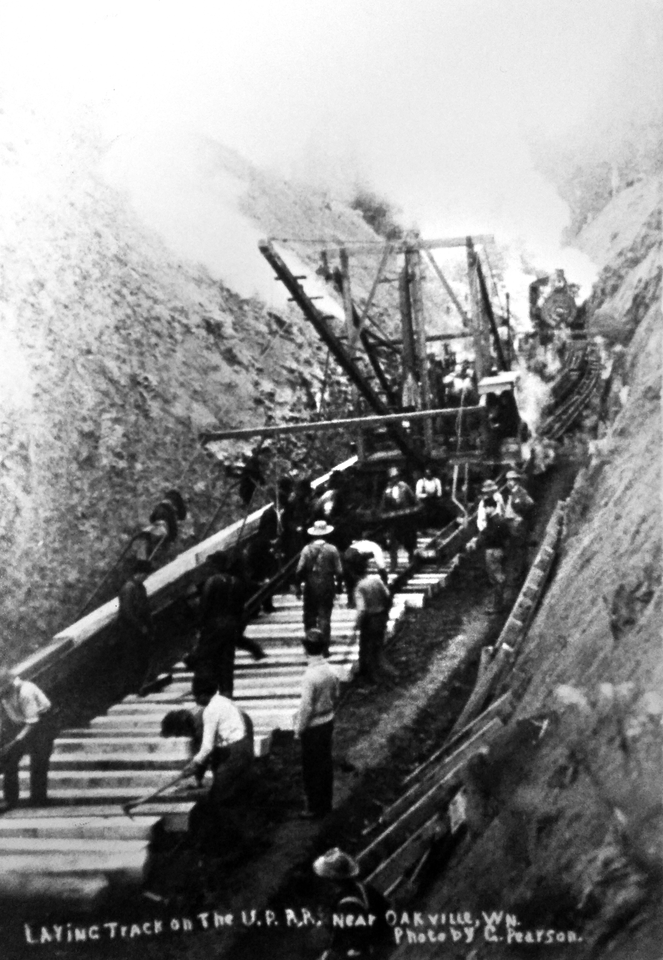 The photo caption reads, "Laying track on the U.P.R.R. near Oakville, WN. Photo by G. Pearson."